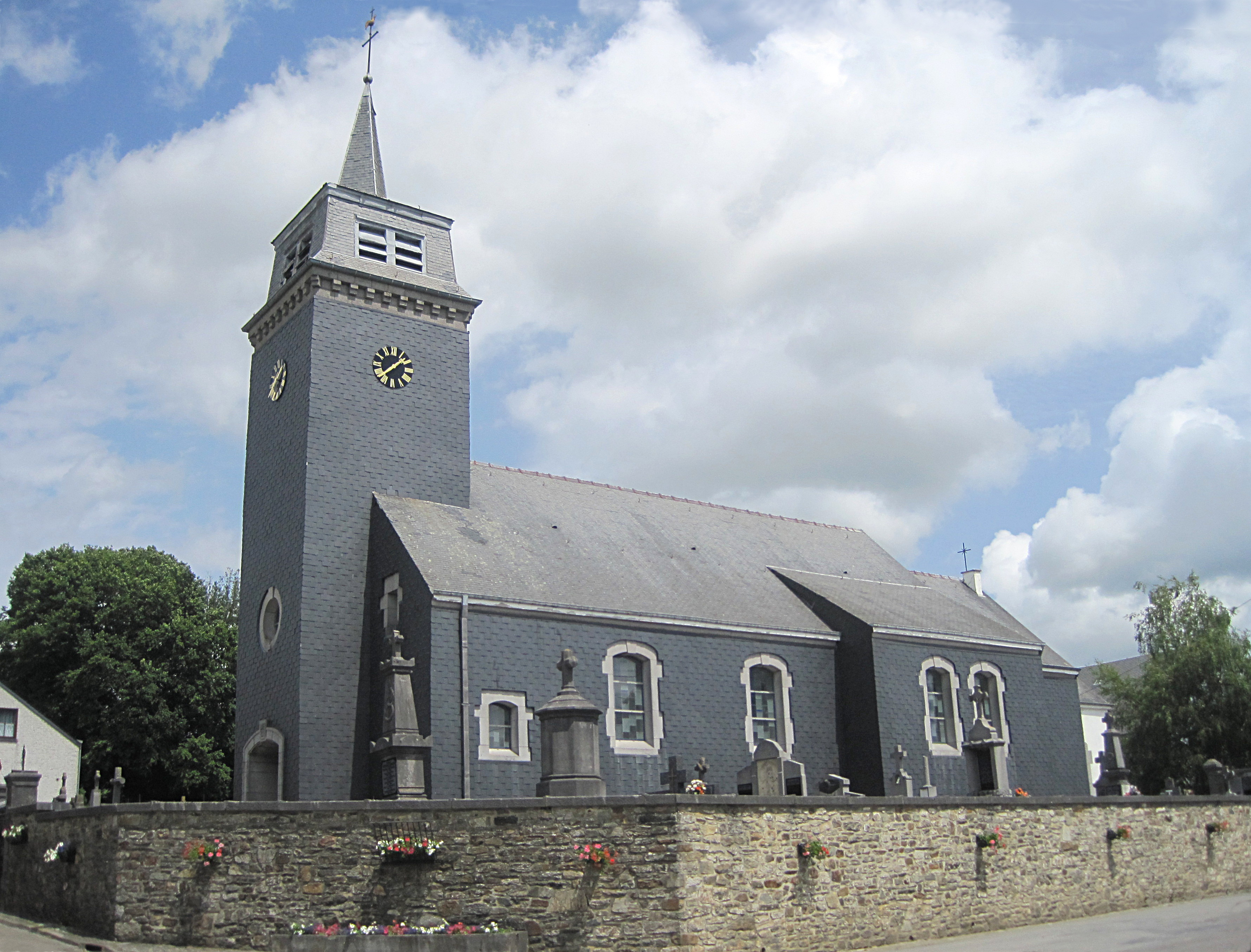 Remagne (Belgium), Saint Peter's church.